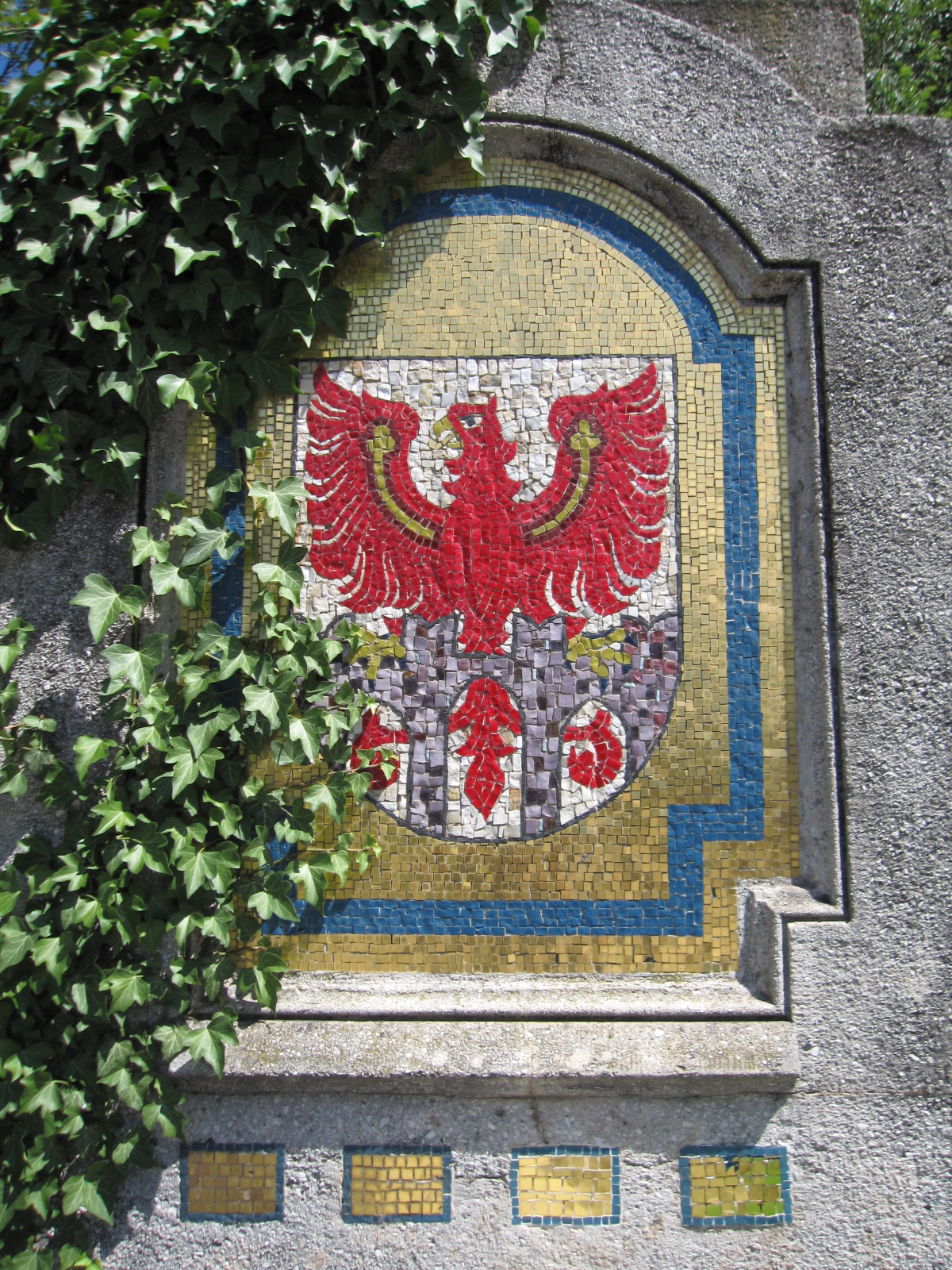 Jugendstil mosaic of the coats of arms of Meran, on the Postbrücke (Post Bridge) in Meran, South Tyrol.